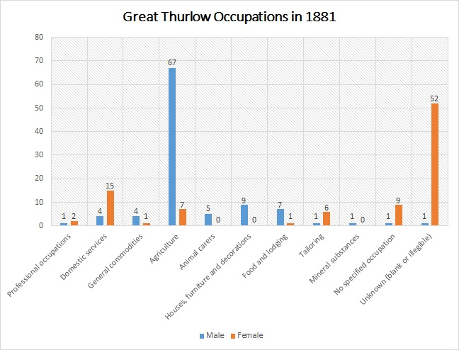 Great Thurlow Occupations in 1881, divided into males and females.